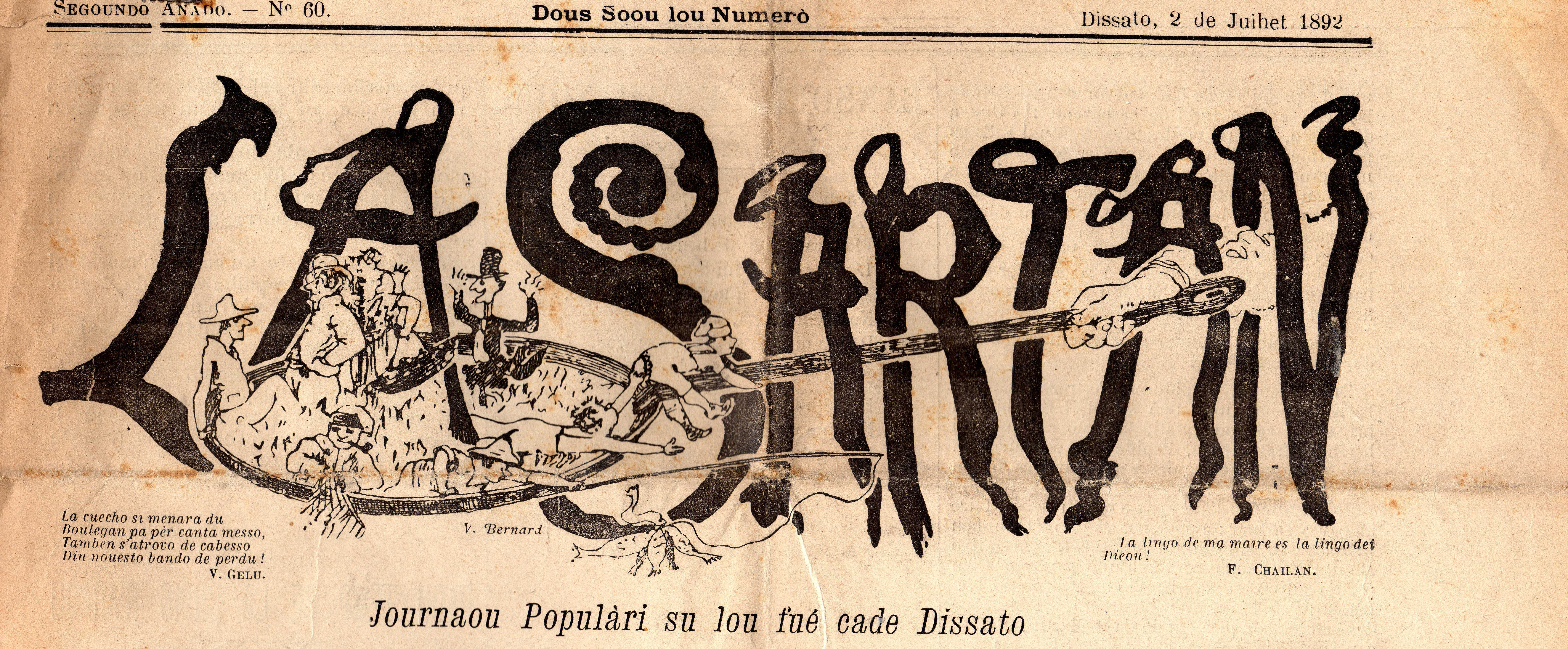 Header of the weekly satyrical newspaper La Sartan